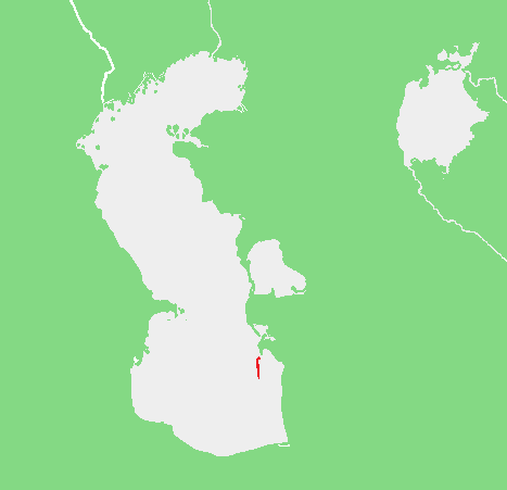 location map